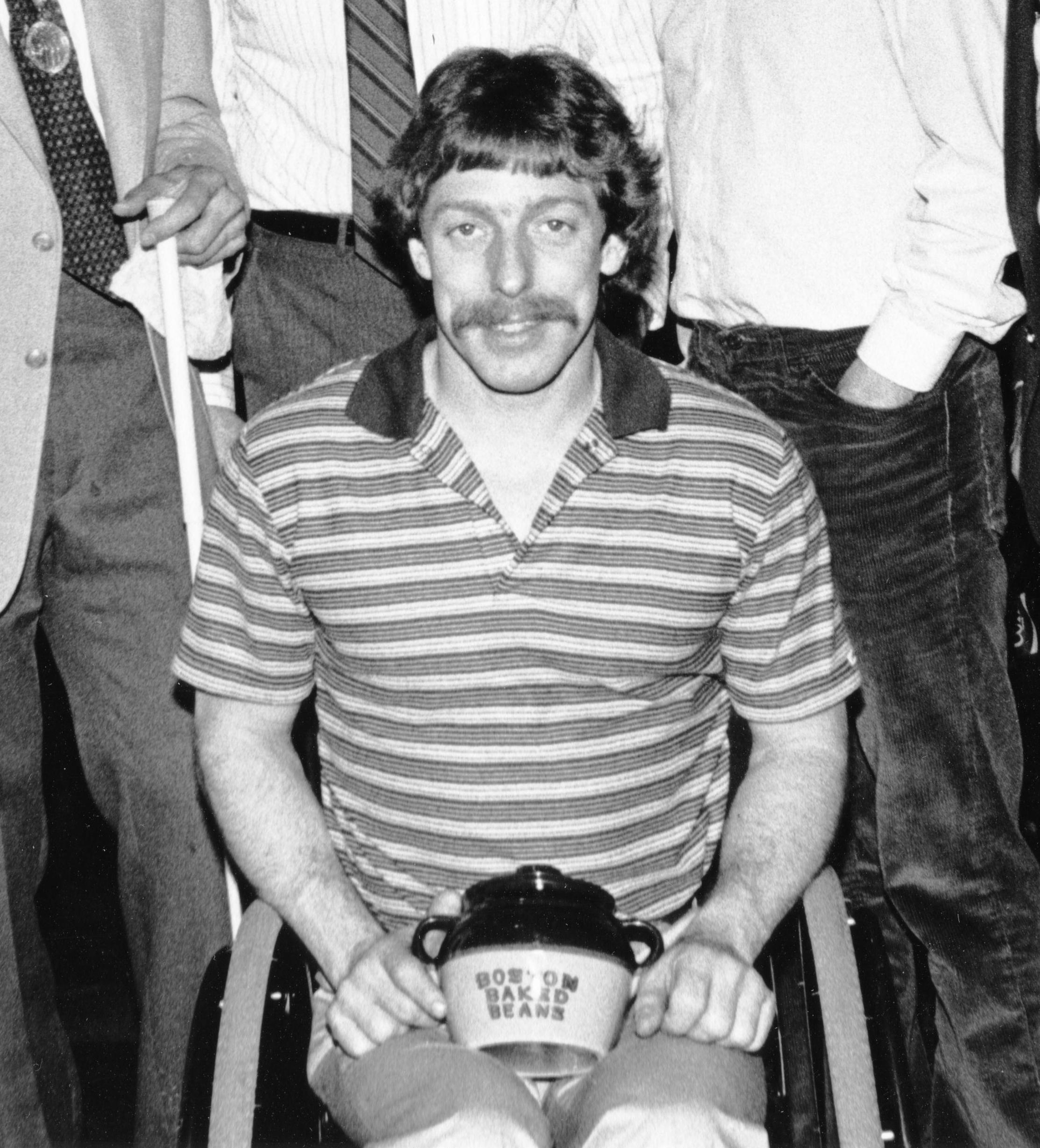 Title: Lorraine Moller, unidentified, Mayor Raymond L. Flynn, Andre Viger, unidentified, unidentified Creator: Mayor's Office - City Photographer Date: circa 1984 Source: Mayor Raymond L. Flynn records, Collection #0246.001 File name: RF_098 Rights: Copyright City of Boston Citation: Mayor Raymond L. Flynn records, Collection #0246.001, City of Boston Archives, Boston